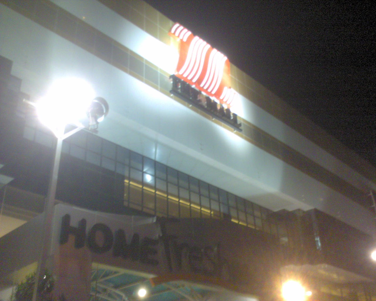 The Mall (Tha-pra)